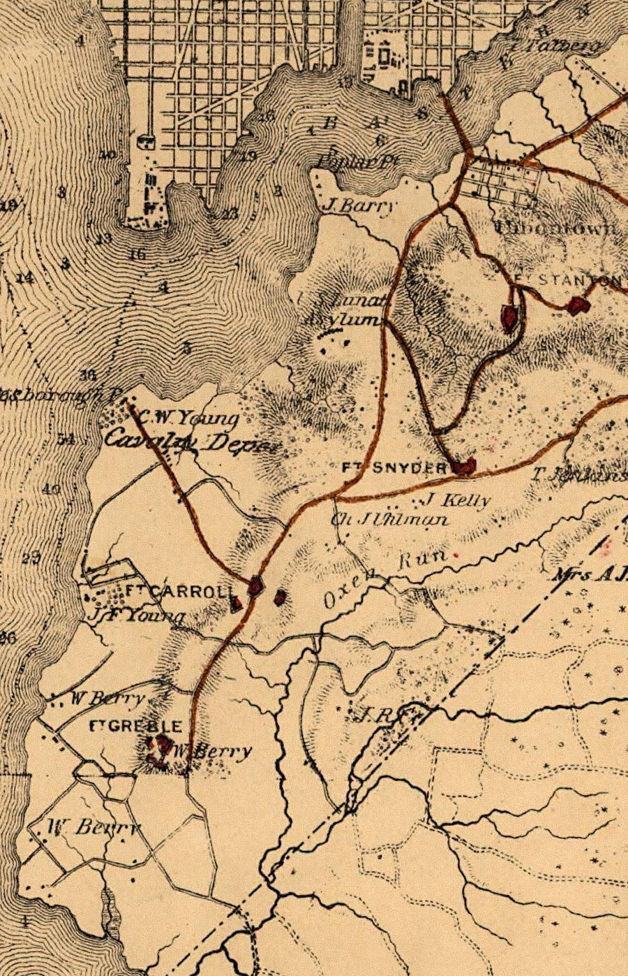 Cropped map of the lower portion of southeast Washington, D.C., in the United States in 1865. The map depicts the location of two American Civil War forts, Fort Carroll and Fort Greble, atop a line of bluffs. Major improved roads used for defense of the city are marked in red. The road just east of the line of bluffs is Asylum Avenue.